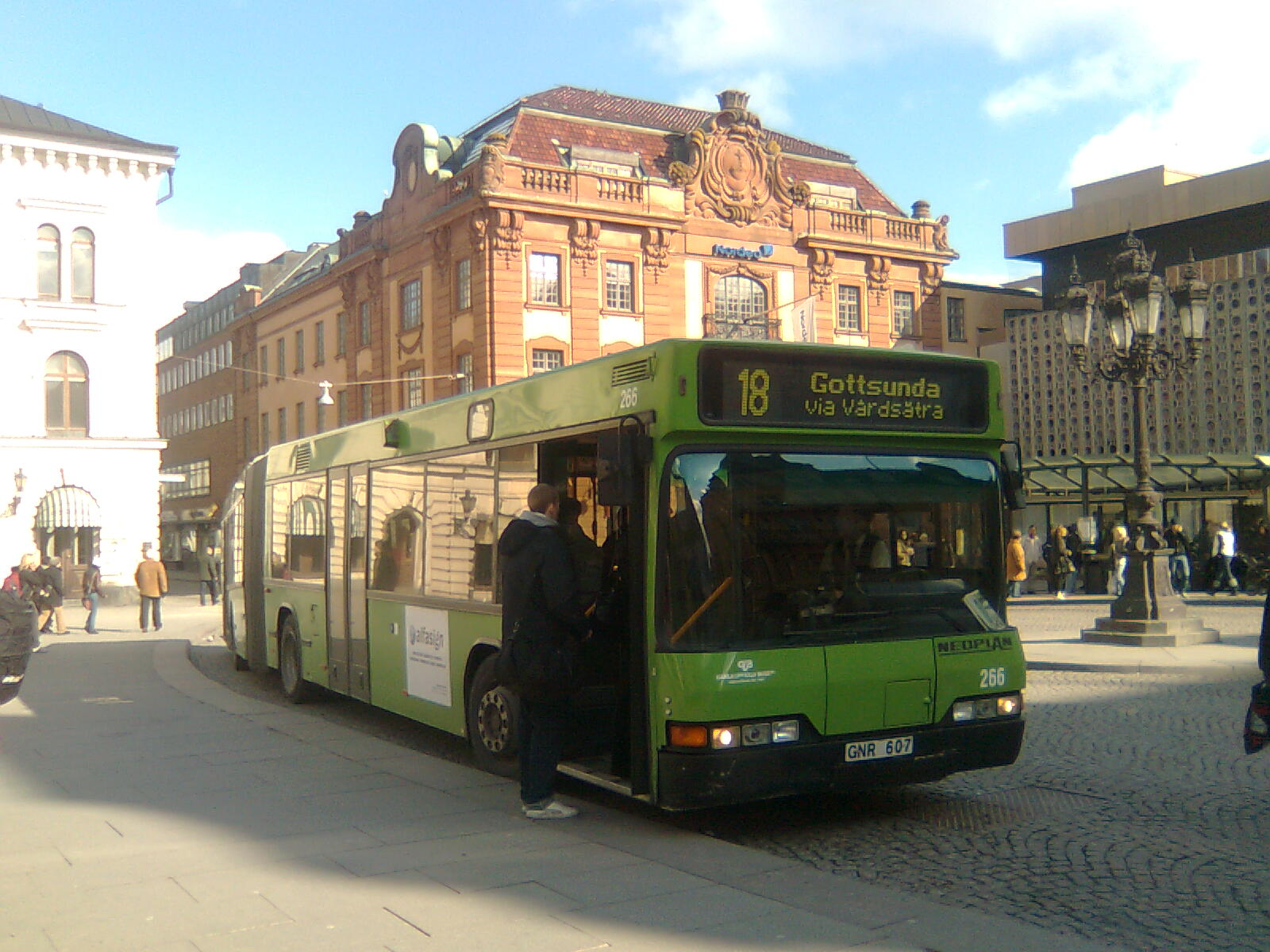 Articulated Neoplan N4021 city bus (#266) at the big square in Uppsala, Sweden. Built 1999, GUB Uppsala operator.